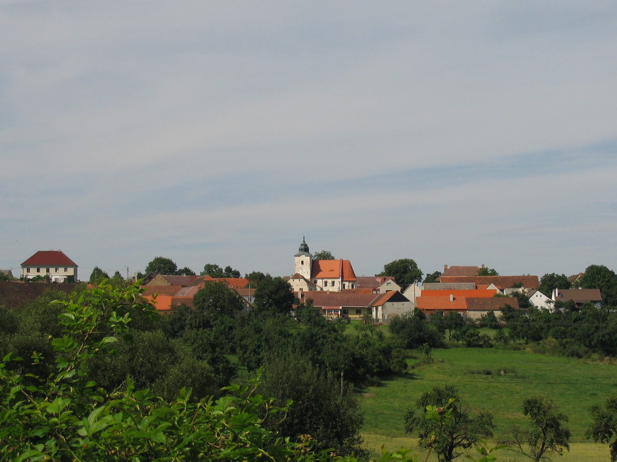 A view of Bukovník (from south), Klatovy District, Czech Republic